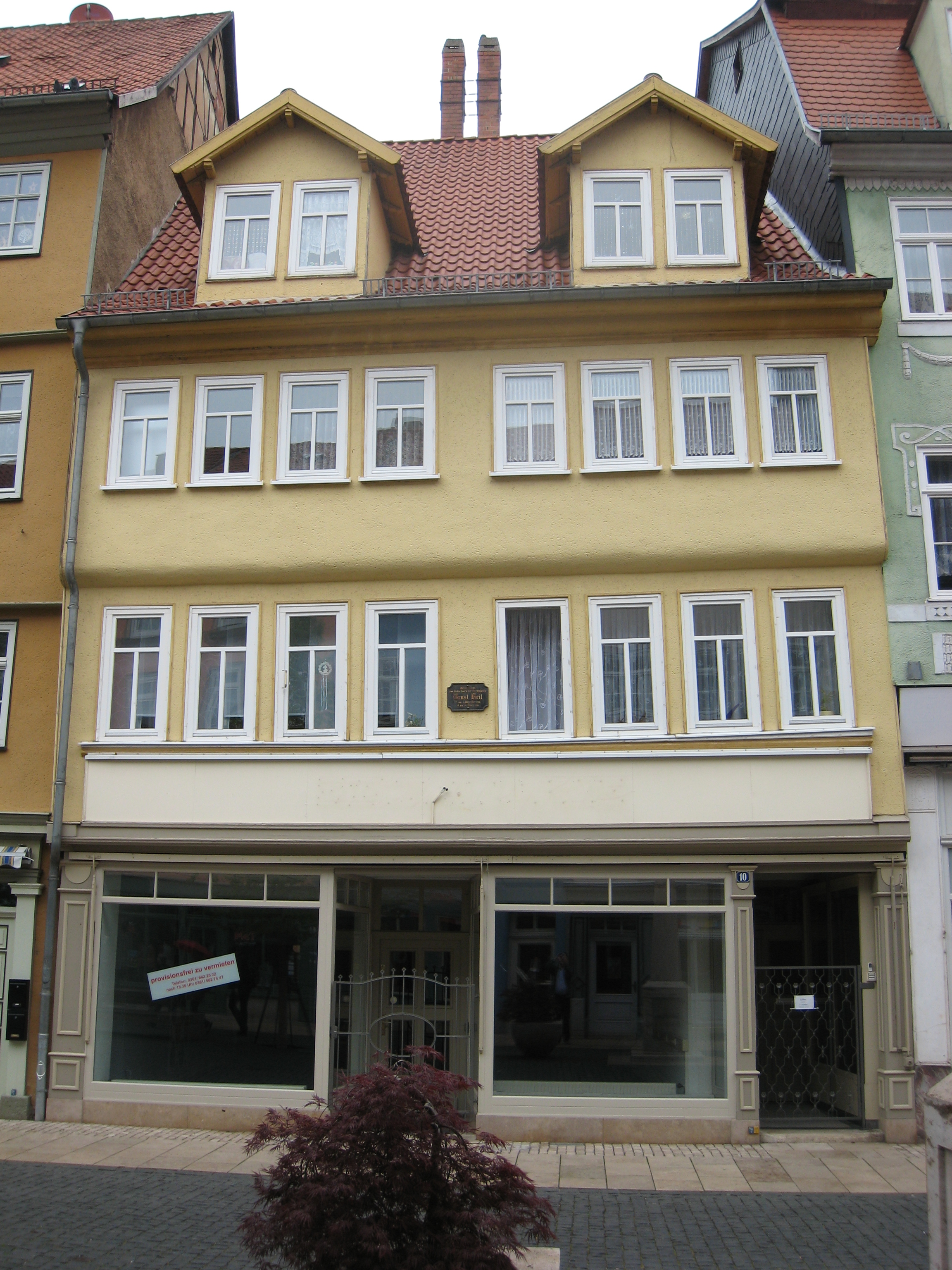 Birthplace of Ernst Keil in Bad Langensalza, Marktstraße 10